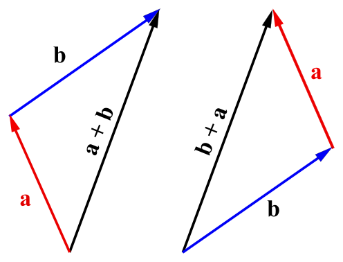 Vector addition